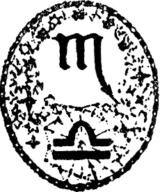 Logo of early 20th-century Russian publishing house "Scorpion".